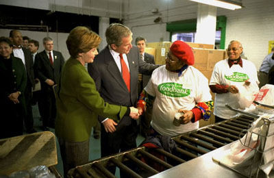 President George W. Bush and Laura Bush greet volunteers at the Capital Area Food Bank. This photograph was taken by White House photographer Paul Morse on January 19, 2002 at the Capital Area Food Bank in Washington.